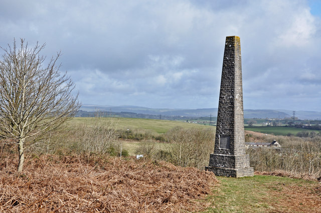 Monument commemorating the dead of the Glamorgan Yeomanry